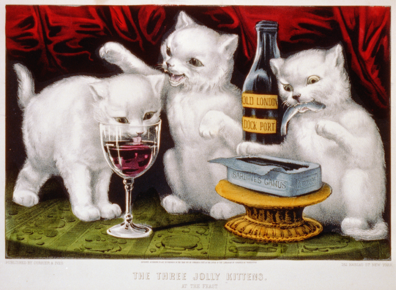 Lithography published by Currier & Ives portraying three kittens at a party.